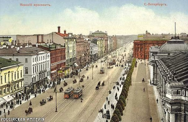 Saint Petersburg (Russia), Nevsky Prospekt.